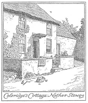 A drawing of Coleridge Cottage as it is thought to have appeared in 1797-8. From William Knight, Coleridge and Wordsworth in the West Country (London, 1913), by Edmund H. New.